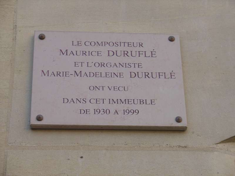 Maurice Duruflé, French composer and organist. Commemorative plate at 6 Place du Panthéon, Paris. Created on August 6, 2006, by myself, 30rKs56MaE